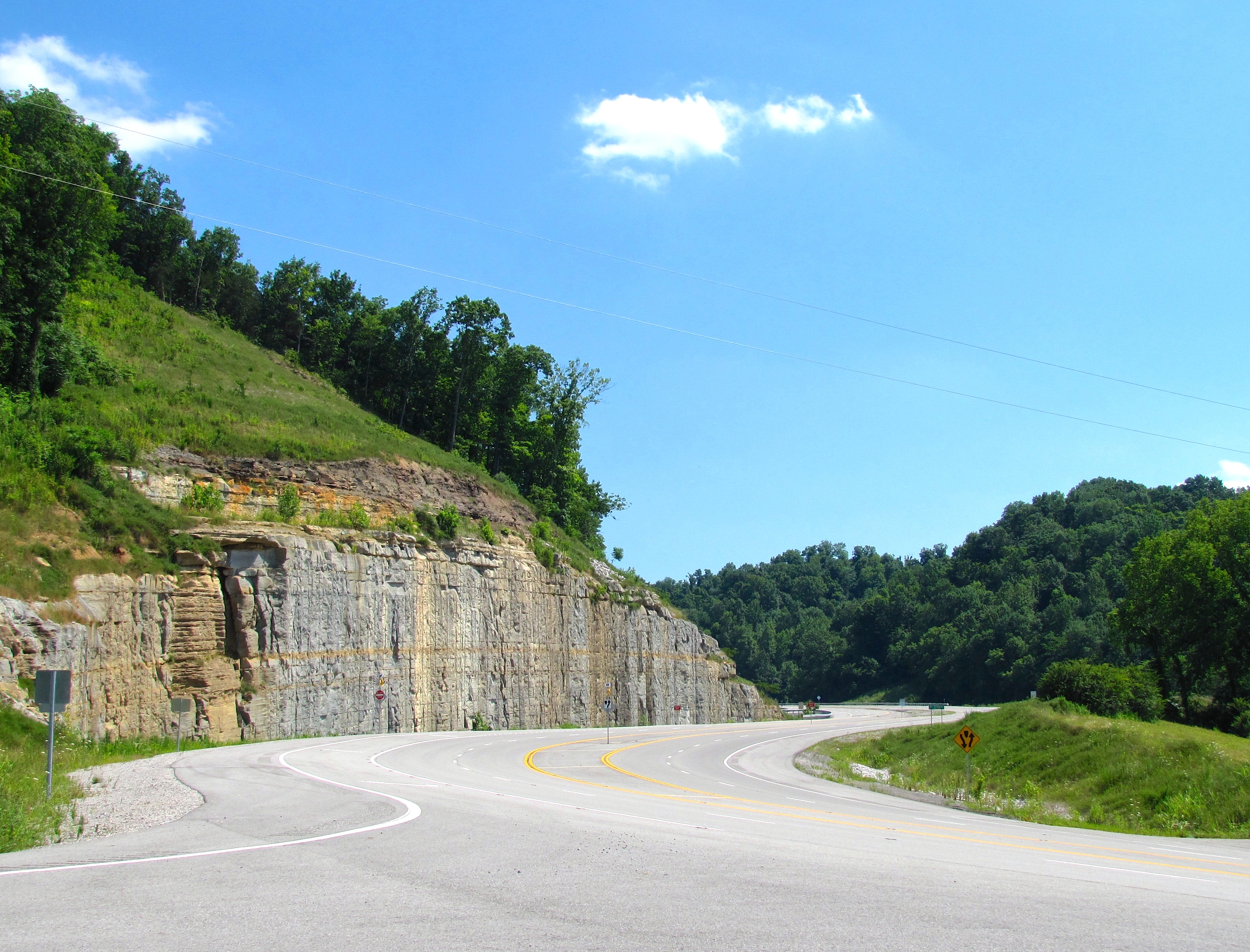 Road cut along State Route 52 in Celina, Tennessee, United States.